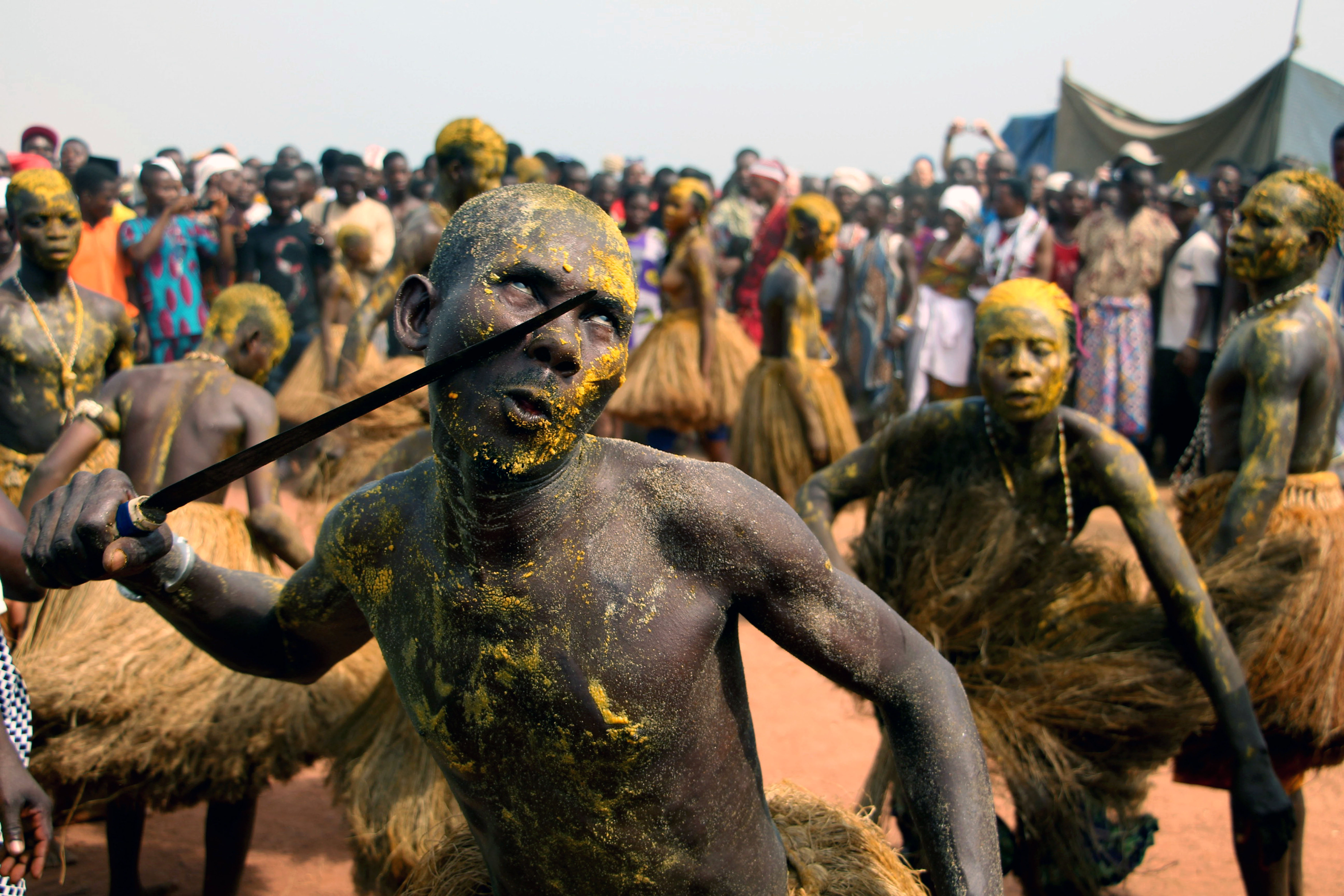 Kokoussi followers at the vodoun festival on January 10, 2020 This is an image with the theme "Africa on the Move or Transport" from: Benin